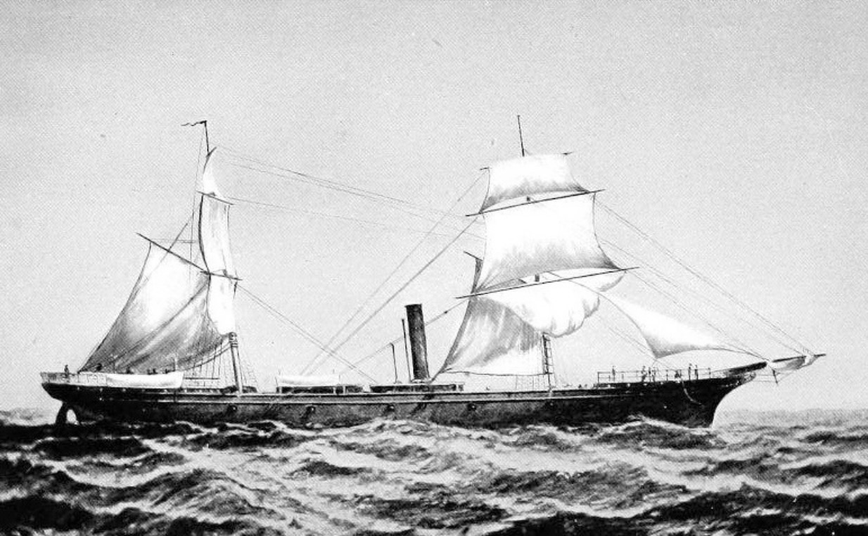 image name is the image caption